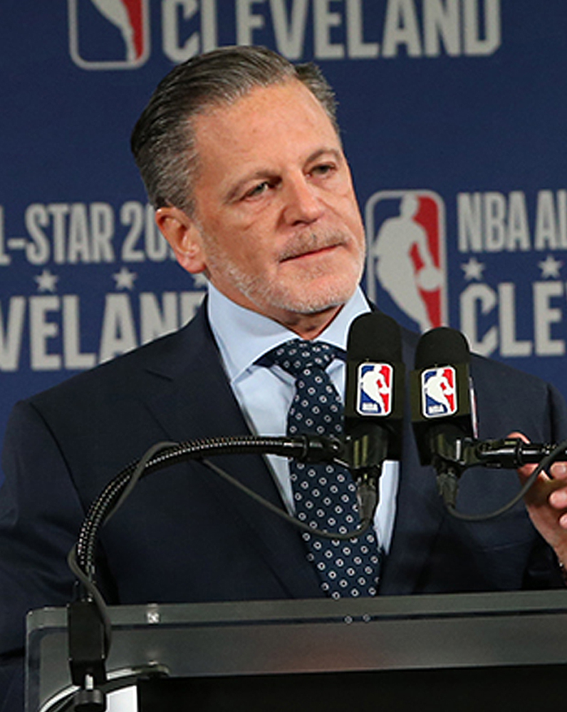 Dan Gilbert announcing the 2022 NBA All-Star Game In Cleveland